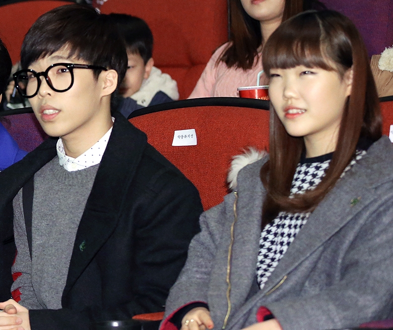 Akdong Musician